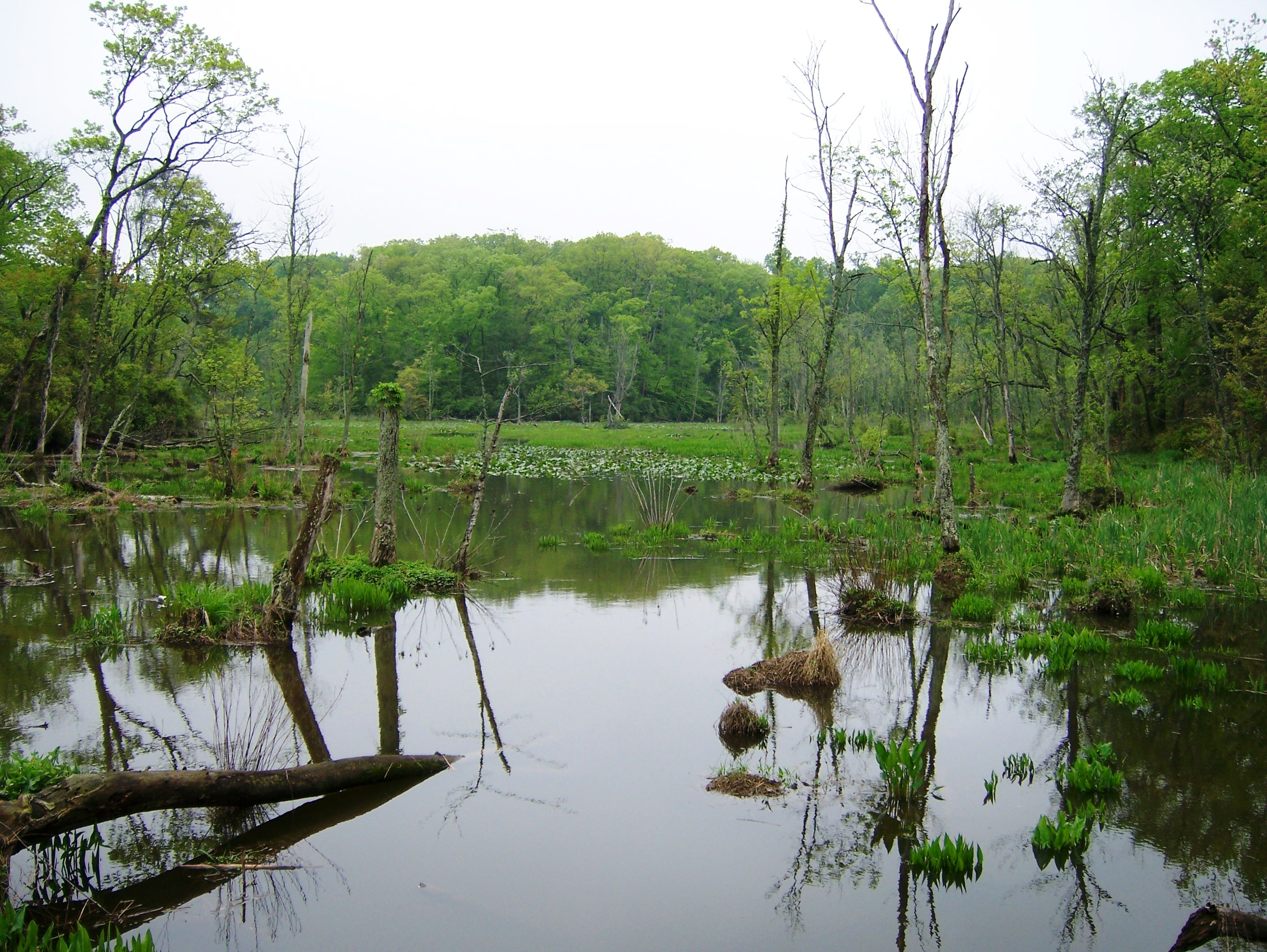 Wetlands in Mason Neck State Park in Virginia